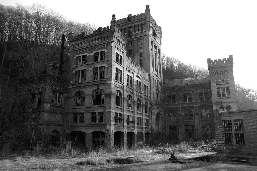 Coal mine Hasard Cheratte in Belgium. Current status: Abandoned.